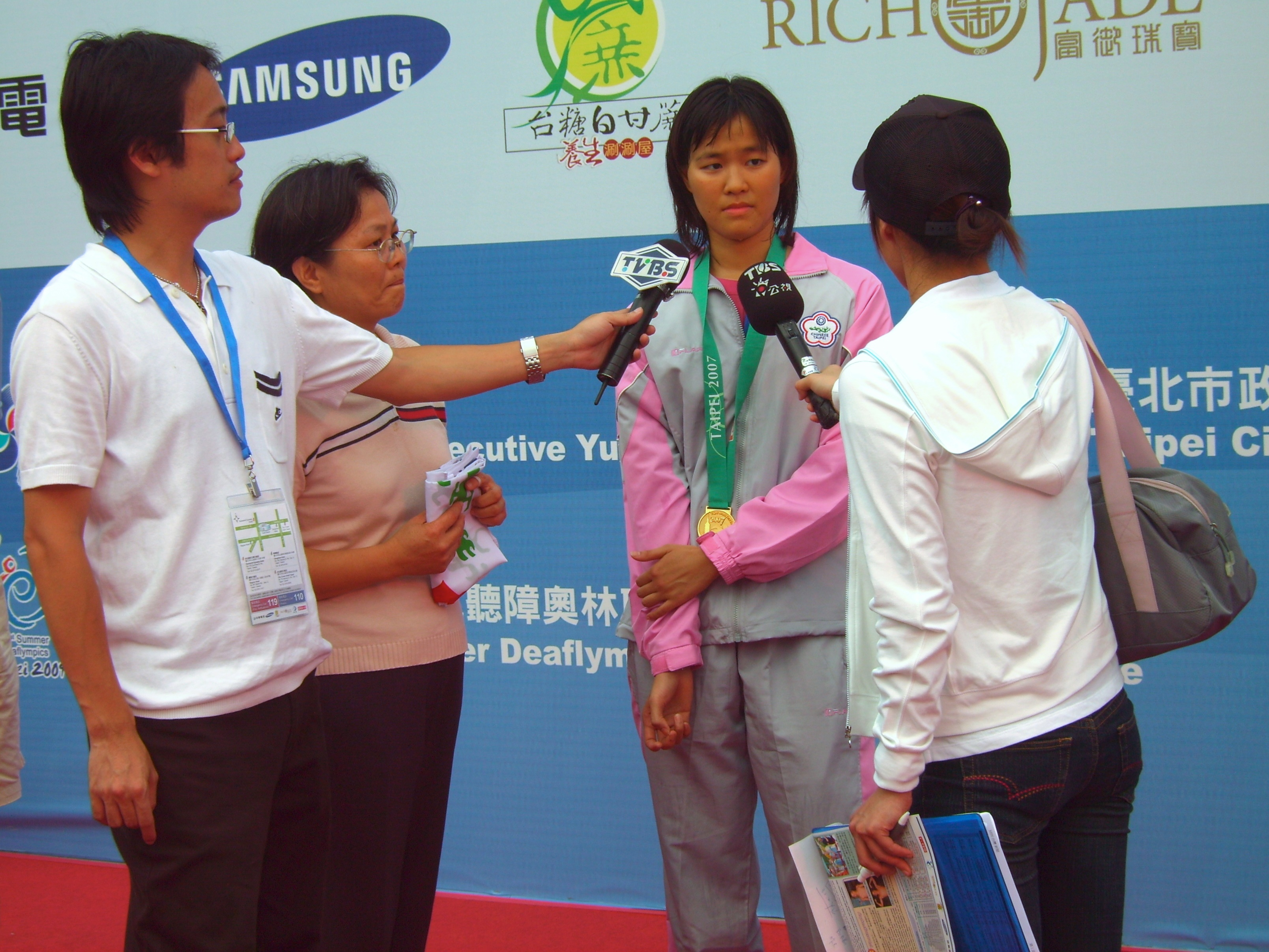 2007 World Deaf Swimming Championships: Mass Media in Taiwan interviewed Shu-ning Tseng after she broke "women deaf swimmer 50m backstroke" world record.